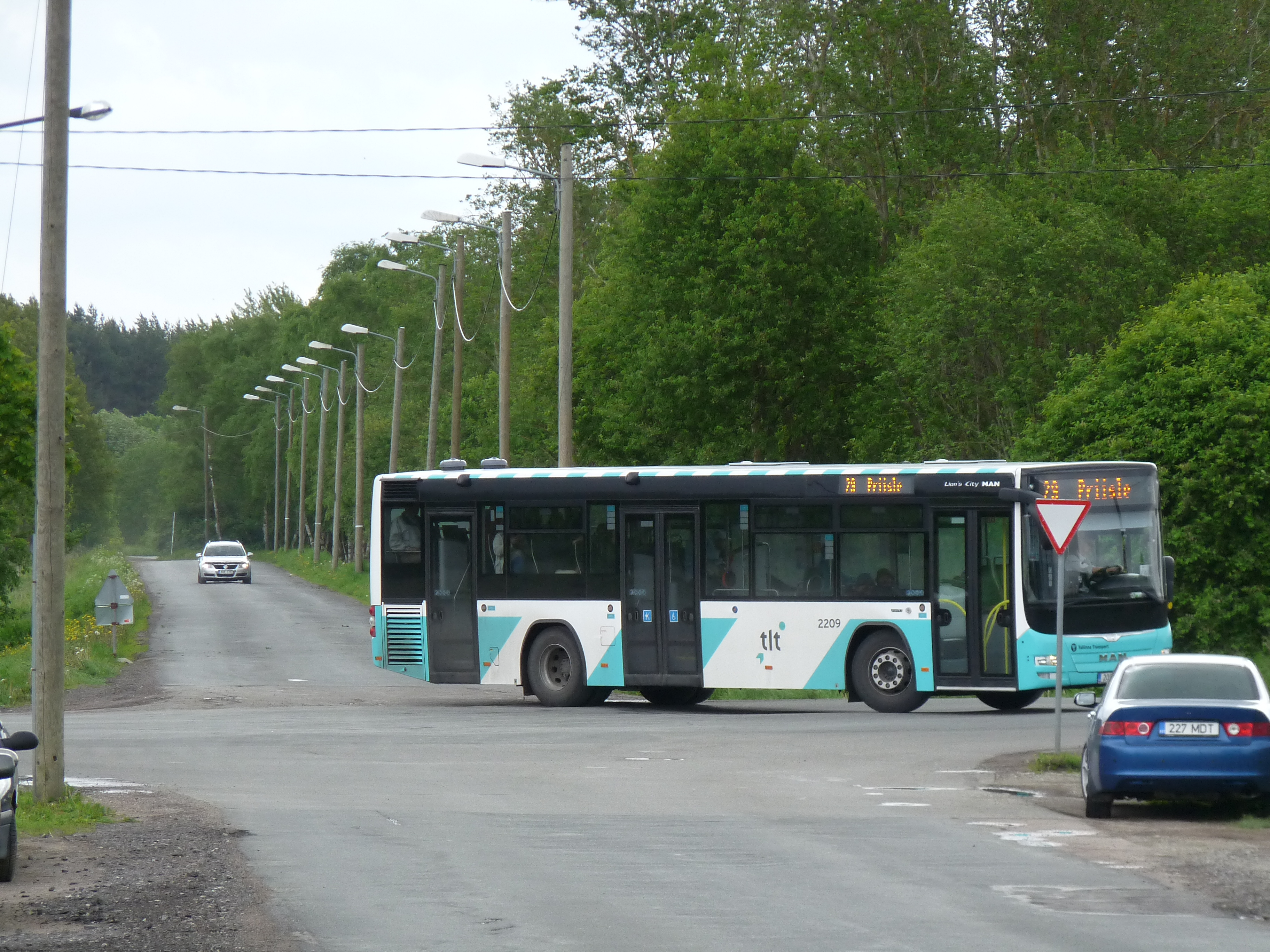 MAN public bus in Tallinn, Estonia